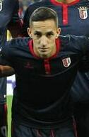 SHAKHTAR DONETSK VS. SPORTING BRAGA 2 - 0